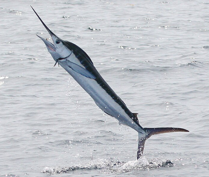 White Marlin (Tetrapturus albidus) in North Carolina